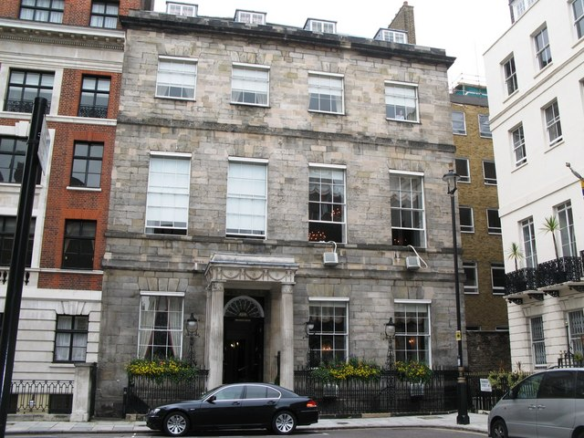 Chandos House, 2 Queen Anne Street, London W1